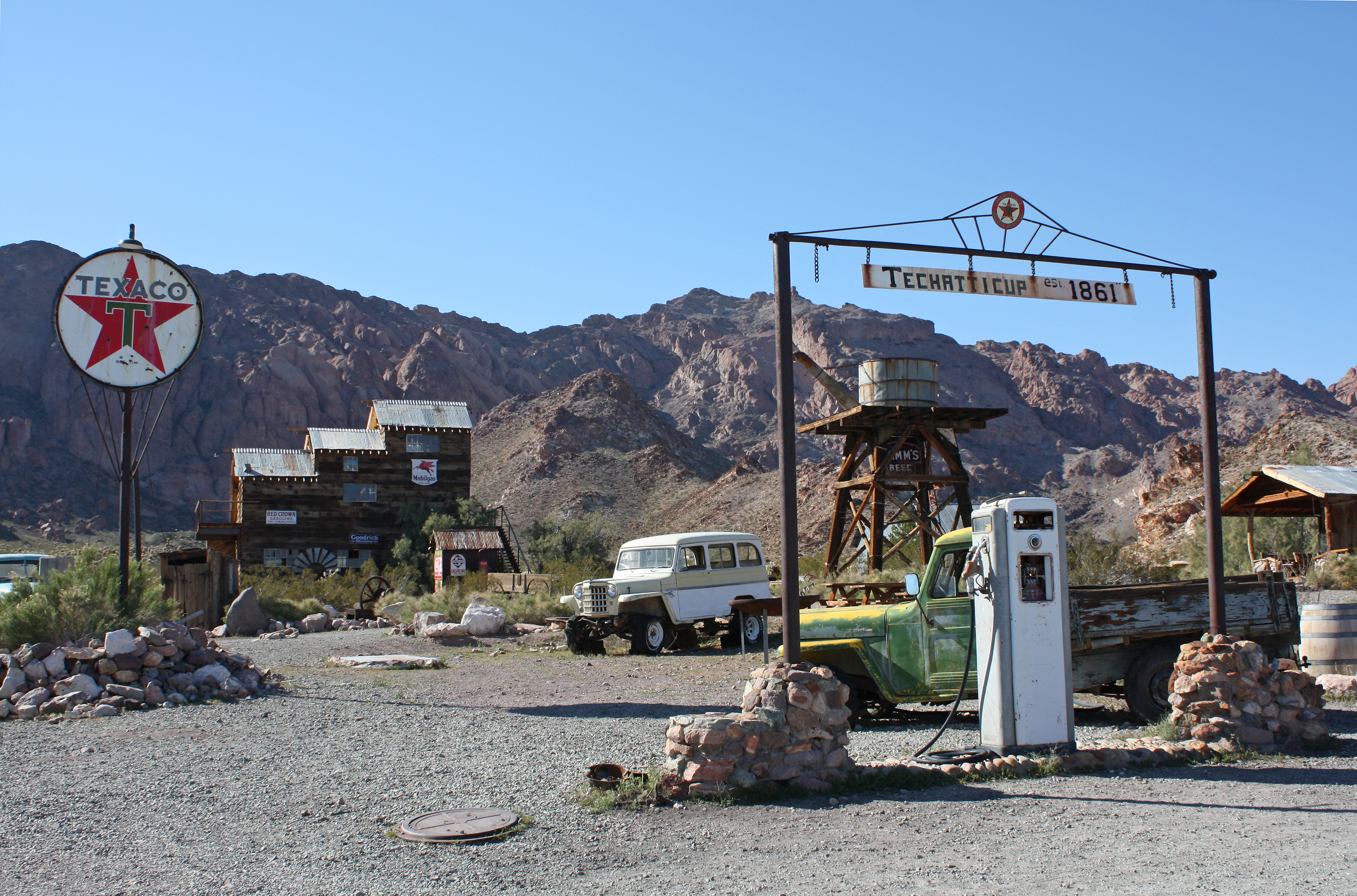 Fuel pump with water tower and watermill in the background of the abandoned Techatticup Mine in southern Nevada.